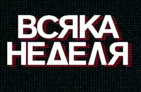 Vsyaka nedelya - Bulgarian television broadcast logo 1999